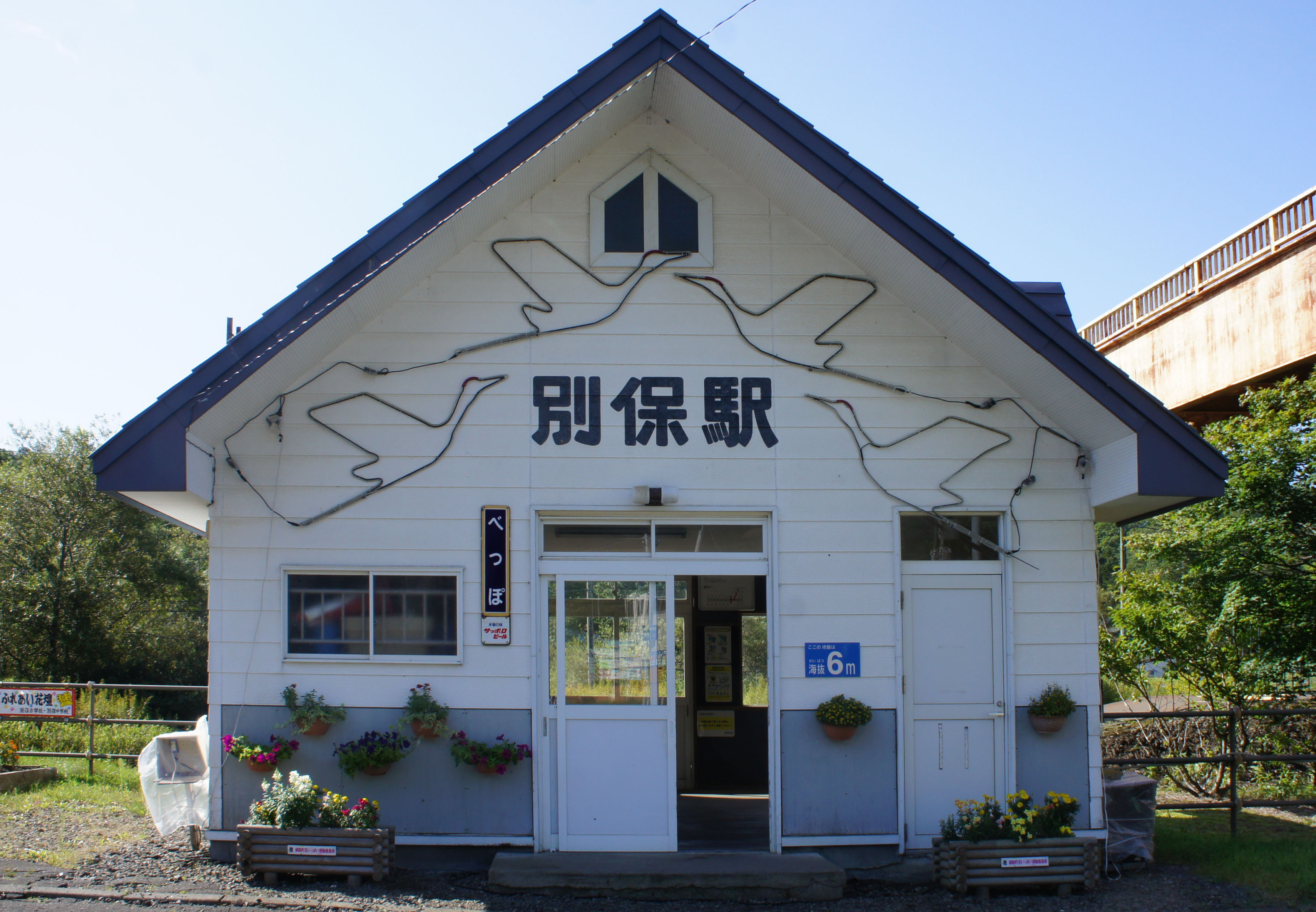 Station building of JR Nemuro-Main-Line Beppo Station